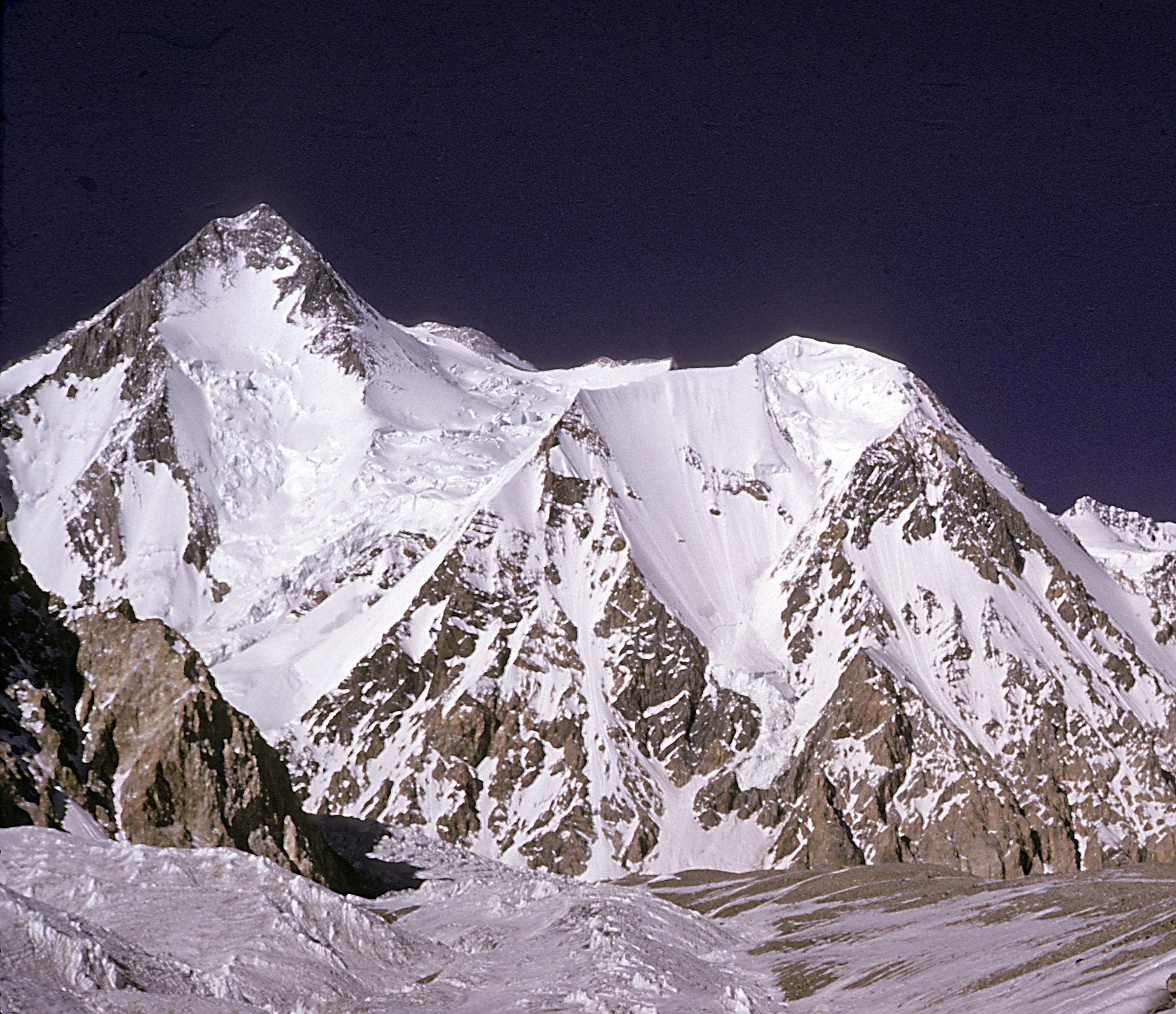 Photo of Gasherbrum I taken from the 1958 base camp by members of the AKE 1958. The first ascent route (July 5, 1958) roughly follows the right-hand skyline. The second ascent (Messner, 1975) was from the left.